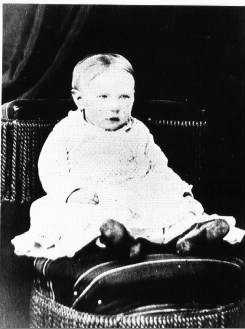 Grace Ingalls 3 years old